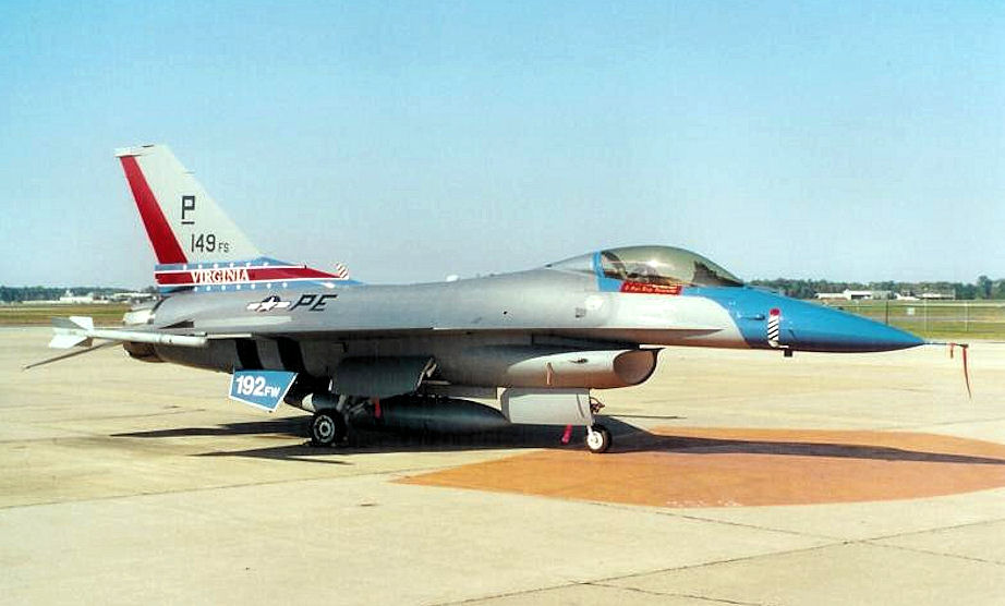 149th Fighter Squadron F-16C 86-0244 in World War II 328th Fighter Squadron markings. Stationed at RAF Bodney, England during World War II, the predecessor 328th FS was part of the 352d Fighter Group, the “Blue Nosed Bastards of Bodney”.